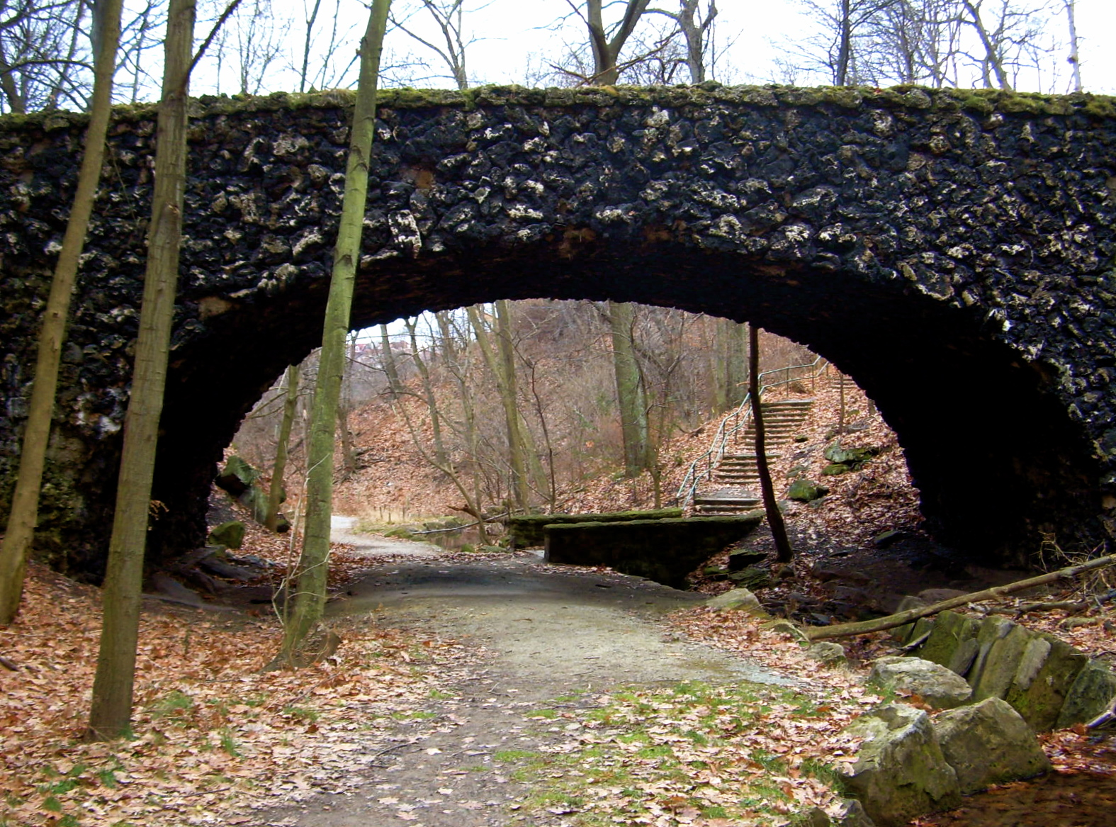 Willjay, taken by me. Footbridge over Panther Hollow Trail, Schenley park, Pittsburgh, 2008.